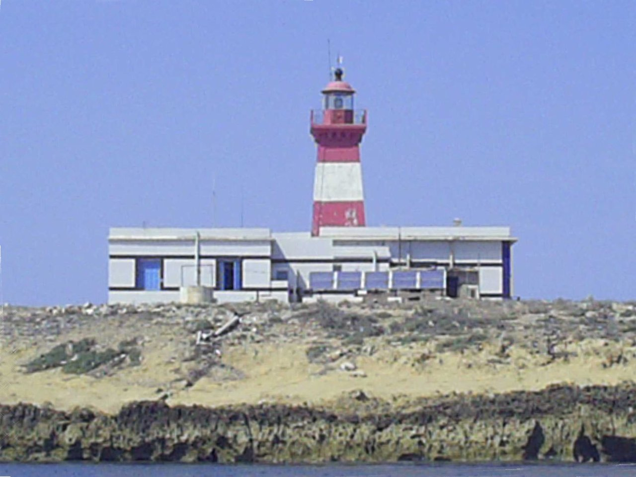 Zoom on building of 'Ile Plane' Ghar El Melh, Tunisia. The ile is 8 meters of height from sea level and contains a lighthouse (+12 meters height). Localised at the east of Ras Sidi Ali El Mekki and 2,3 miles from the coast (37º 10,8' N - 10º 19,7' E).